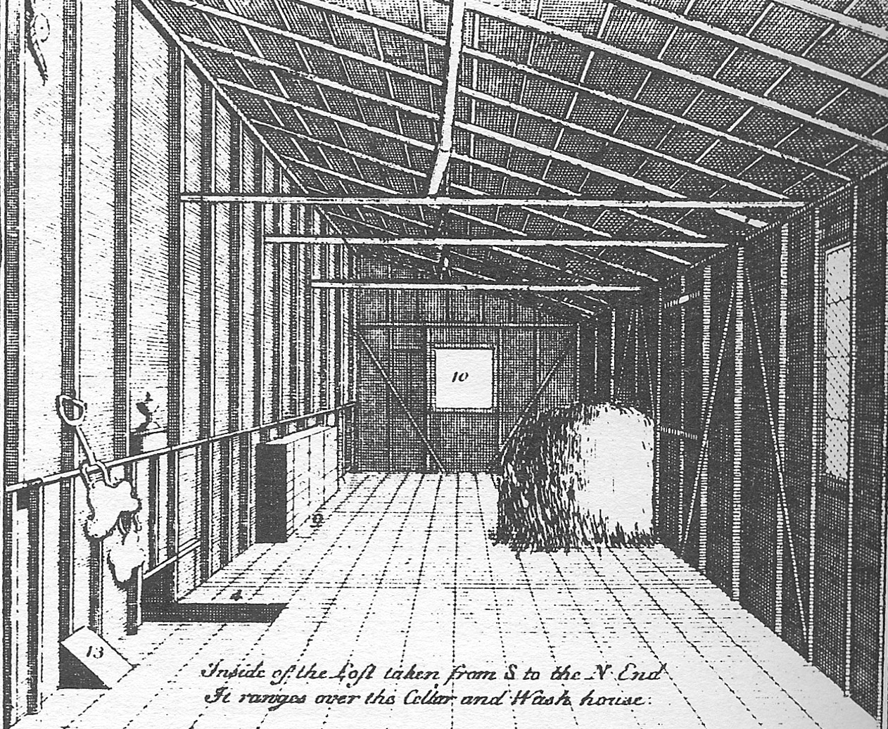 A drawing of the loft which, it was claimed, served as Elizabeth Canning's prison